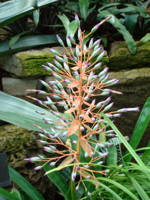 Picture of Portea petropolitana